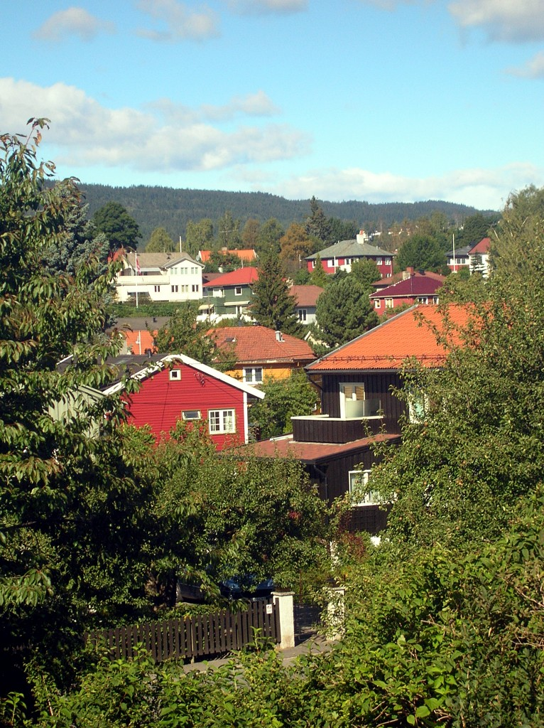 Tåsen – the quarter of Oslo (Norway)